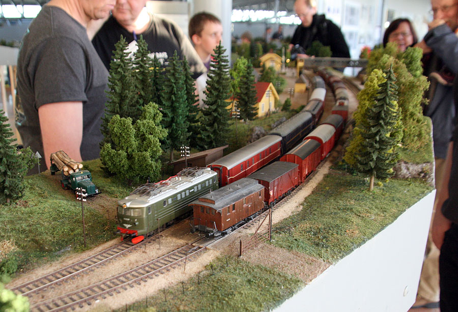 Model railway gathering Fremo, at Gardermoen in Norway, 2010Norsk bokmål: Modelljernbanesamling på Gardermoen 2010, Fremo Norge. Nittedal stasjon modellert.